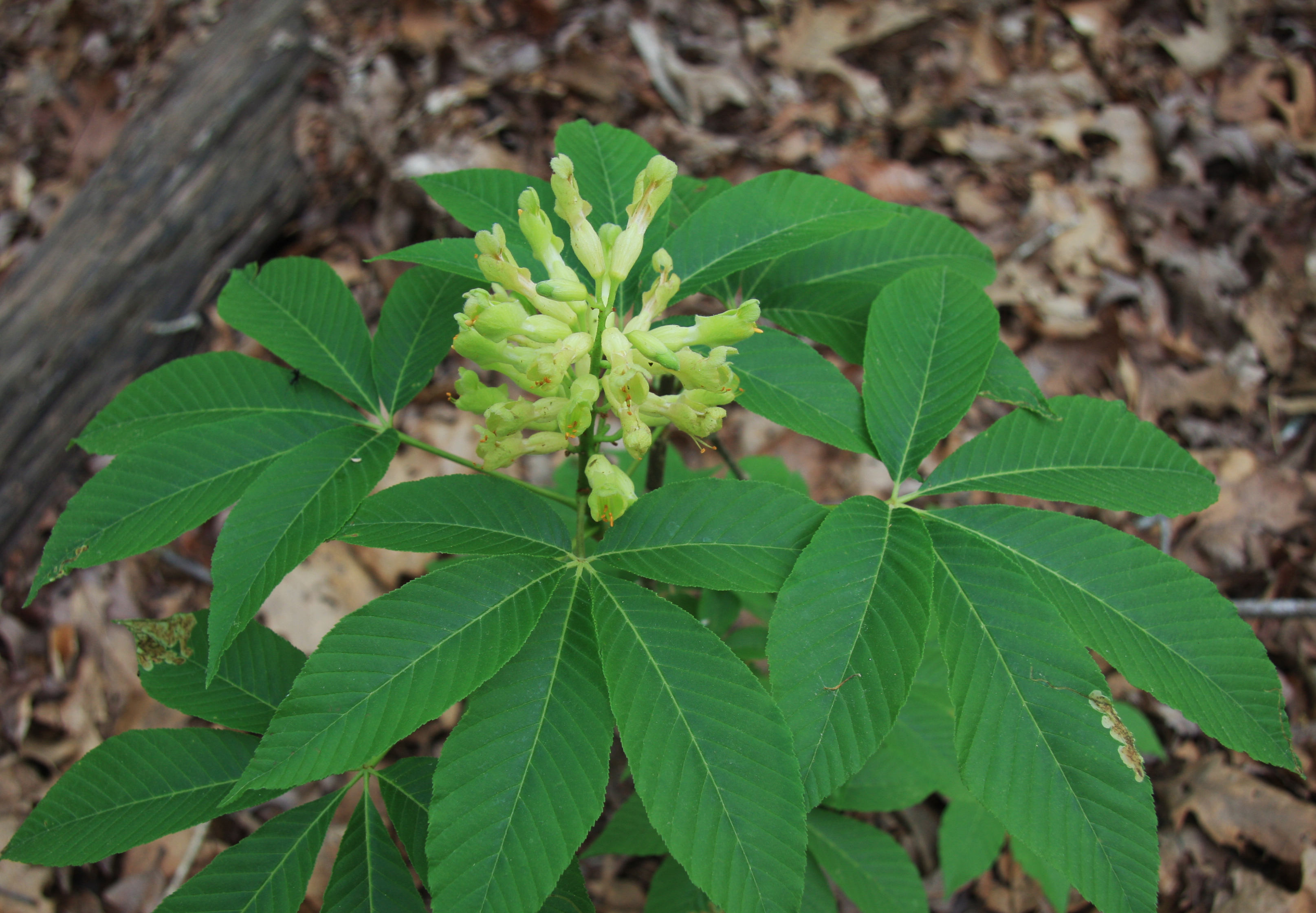 Painted buckeye (Aesculus sylvatica), flowers and leaves. Buckeye is especially evident in early spring because its leaves are among the earliest to develop fully. Duke Forest Korstian Division, Durham, North Carolina USA.